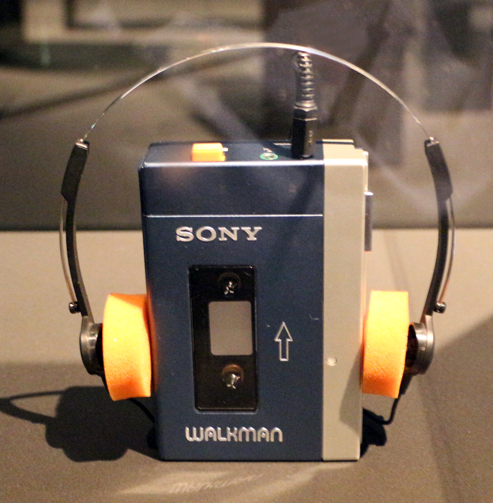 Neo Preistoria exhibition (Milan 2016)